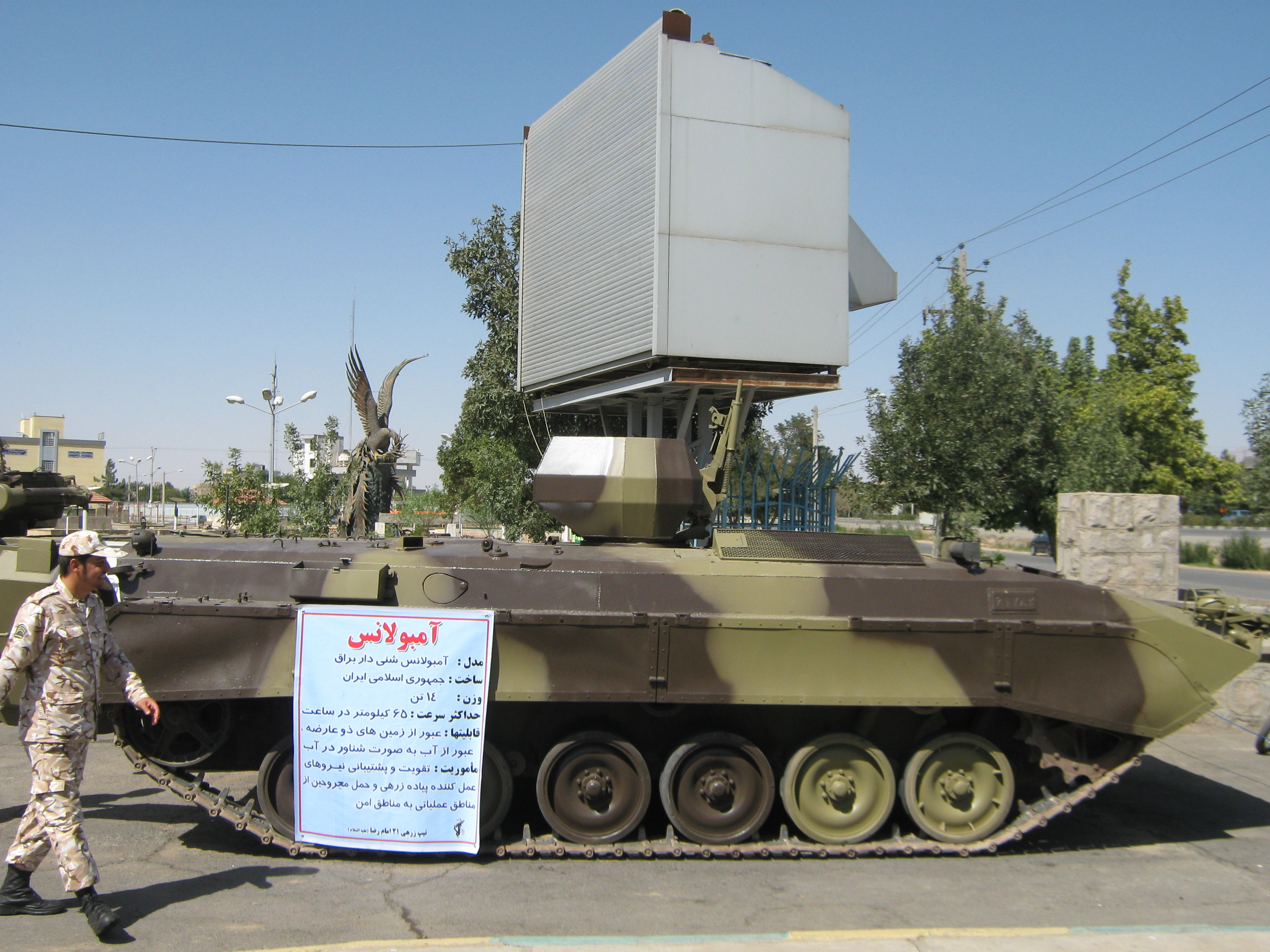 Holy Defence Week Expo - Simorgh Culture House -Nishapur